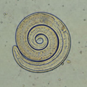 Trichinella spiralis larvae freed from their cysts. Displayed in their distinguishable coil shape.